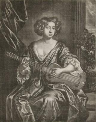 portrait of Mary Davis, known as Moll Davis (c. 1648-1708), a mistress of King Charles II